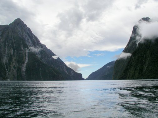 Photograph of Milford Sound, New Zealand